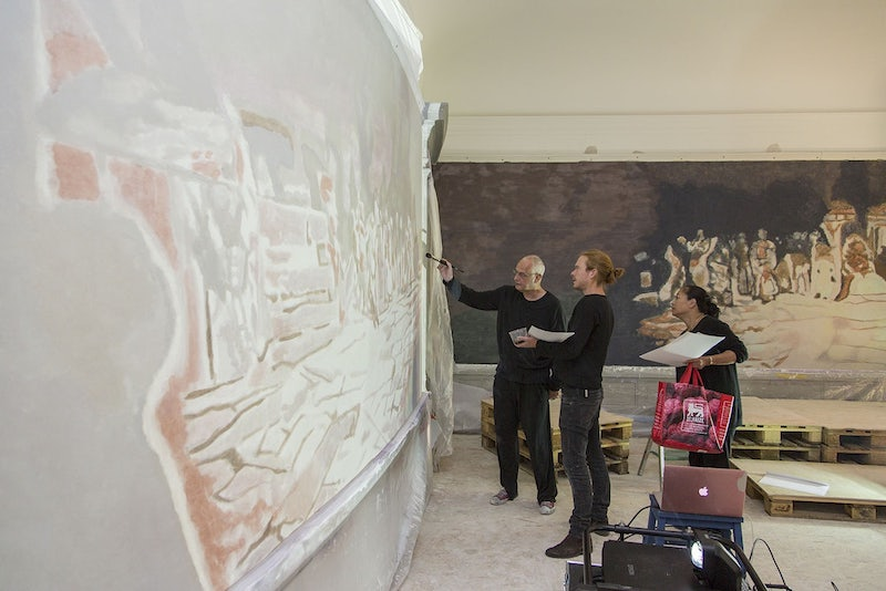 Luc Tuymans in 2017 at the Museum of Fine Arts, Ghent, Belgium.